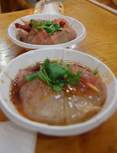 Pictures of Ba-wan(彰化肉圓) that I took while I was in Taiwan.